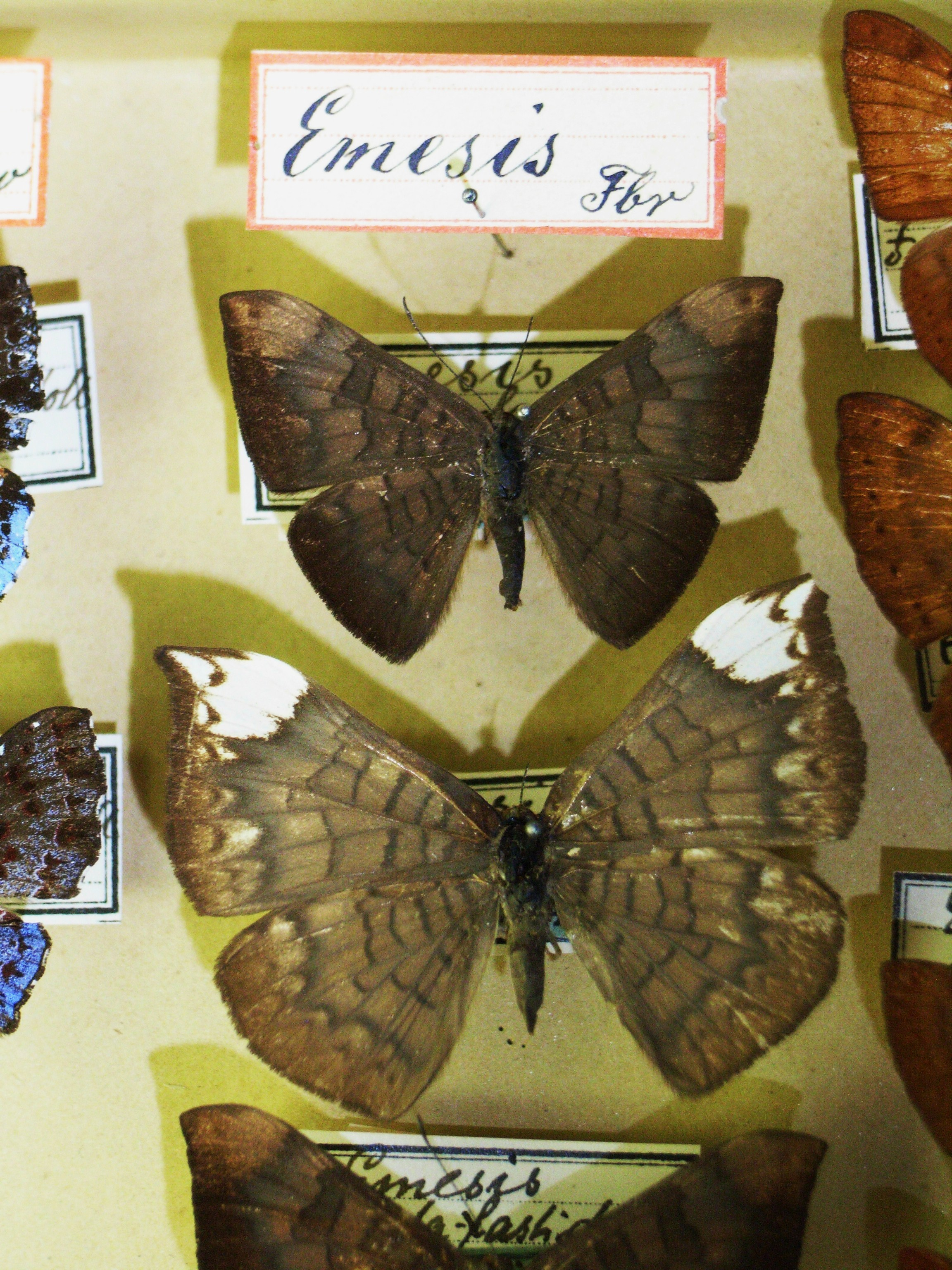 Emesis Fabricius, 1807 sp. Riodinidae Ex coll. Museum Wiesbaden